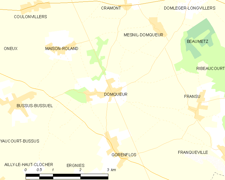 Map of French municipality Domqueur